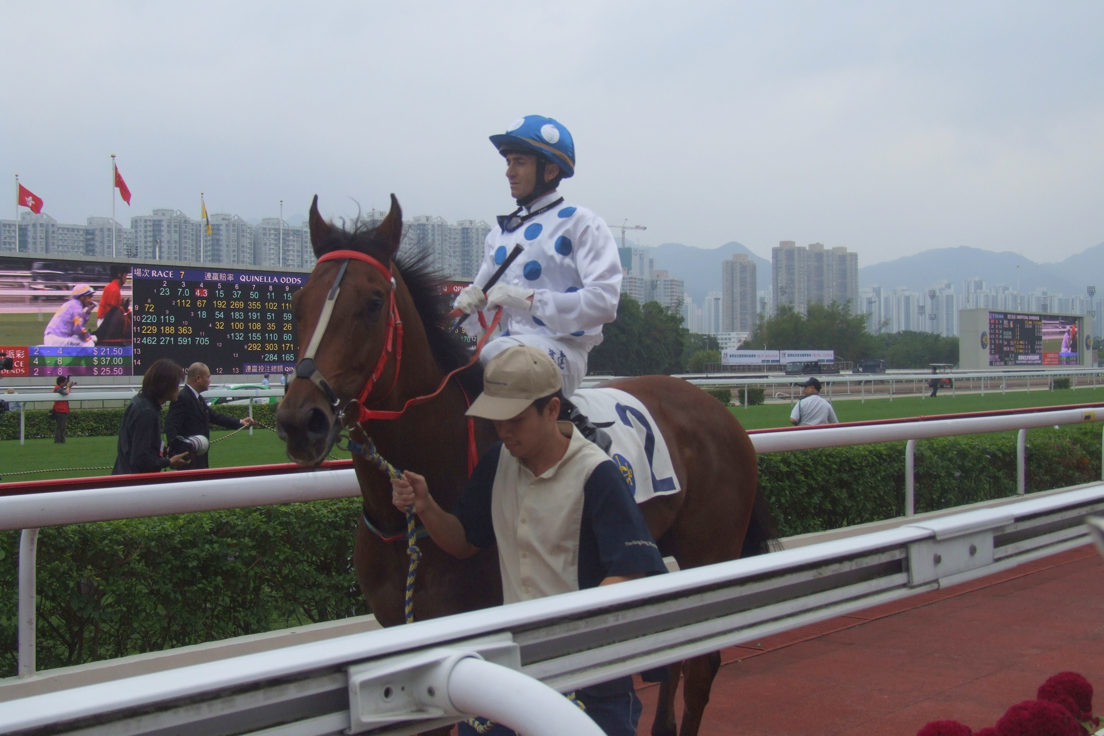 Entrapment